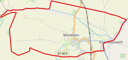 Map of the Misterton ward of Bassetlaw. This map may be incomplete, and may contain errors. Don't rely solely on it for navigation.